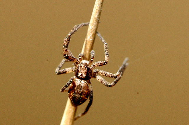 male Philodromus.cespitum from Commanster, Belgian High Ardennes .